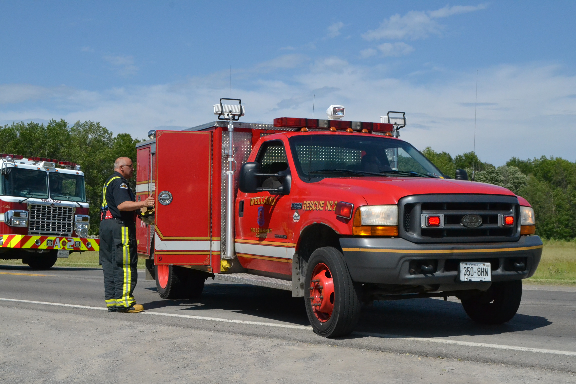 Firefighter from the Welland Fire Department replacing equipment in Rescue No 2. The unit was responding to a motor vehicle accident. Dependable Emergency Vehicles are made in Brampton, Ontario. This one is based on a Ford F550 diesel.